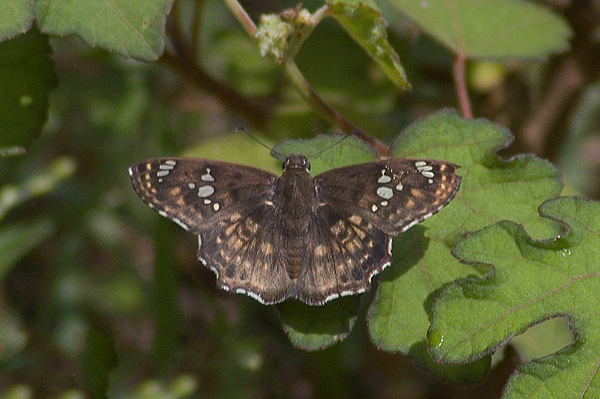 By Dhaval Momaya at Maredumilli, Andhra Pradesh during August 2007.